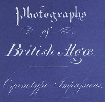 Detail of the title page of the 1843 book by Anna Atkins entitled Photographs of British Algae: Cyanotype Impressions. This was the first book illustrated with photographic images. The description of the original image from the New York Public Library is: "Image Title: [Titlepage.] Creator: Atkins, Anna, 1799-1871 -- Photographer Additional Name(s): Herschel, John F. W. (John Frederick William), Sir, 1792-1871 -- Former owner Published Date: 1843-53 Medium: Cyanotypes Specific Material Type: Photographs Item Physical Description: 1 photograph Source: Photographs of British algae: cyanotype impressions. / Part I. Source Description: 231 photographs and 2 manuscripts and 1 portfolio Location: Stephen A. Schwarzman Building / Spencer Collection Catalog Call Number: Spencer Coll. Eng. 1843 93-440 Digital ID: 419632 Record ID: 103437 Digital Item Published: 3-31-2004; updated 2-12-2009"